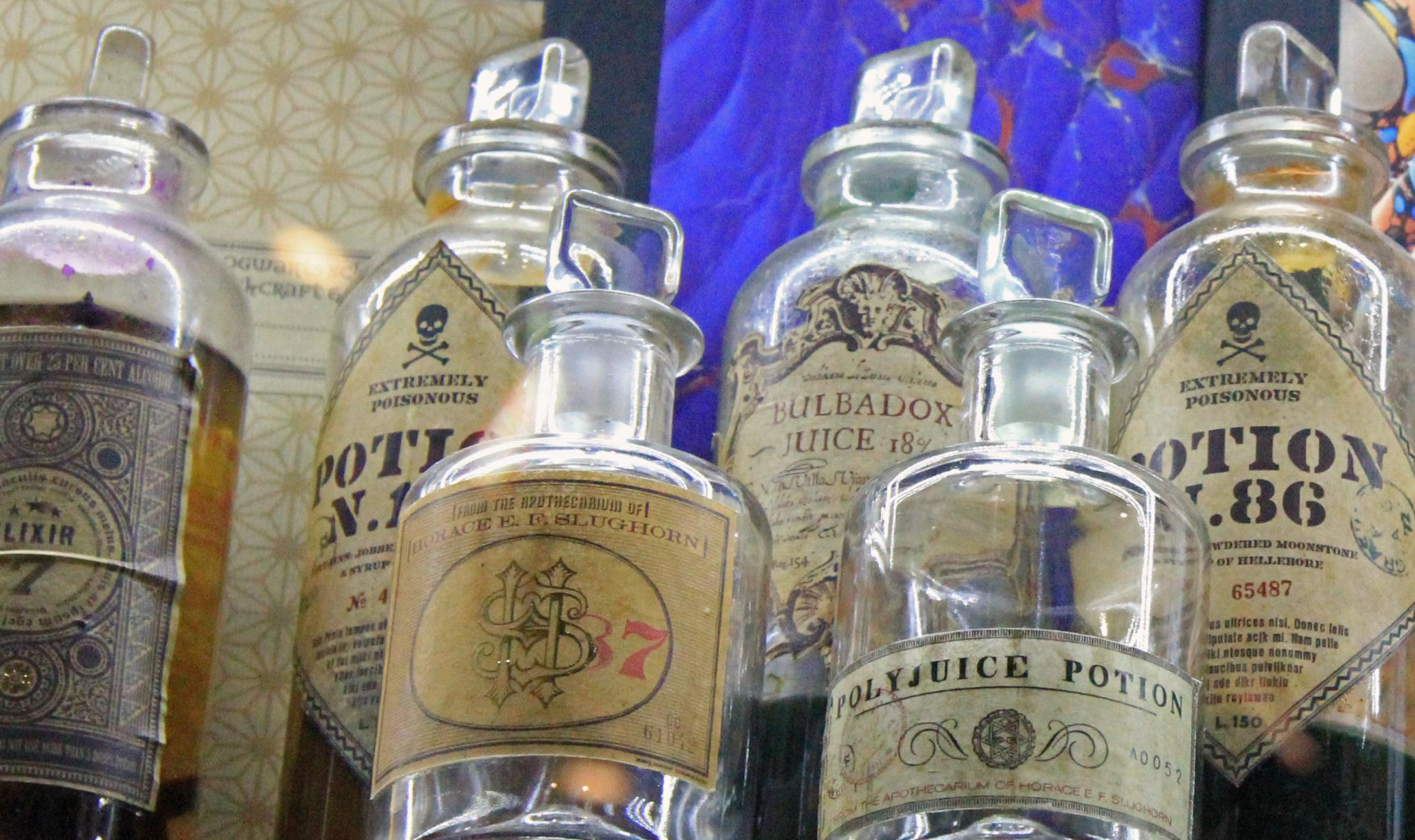 Warner Bros. Studio Tour London: The Making of Harry Potter.